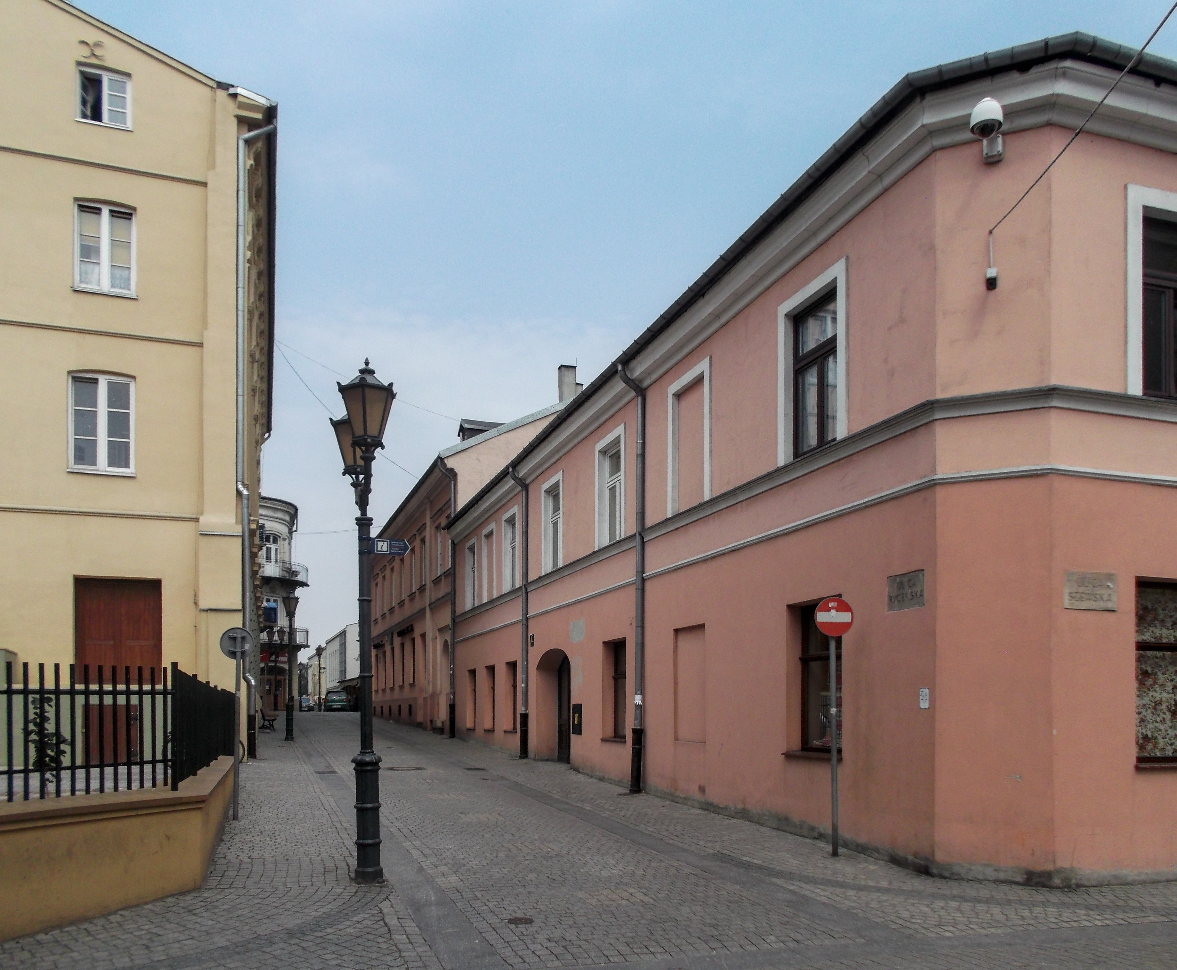 Rycerska street in Piotrków Trybunalski.